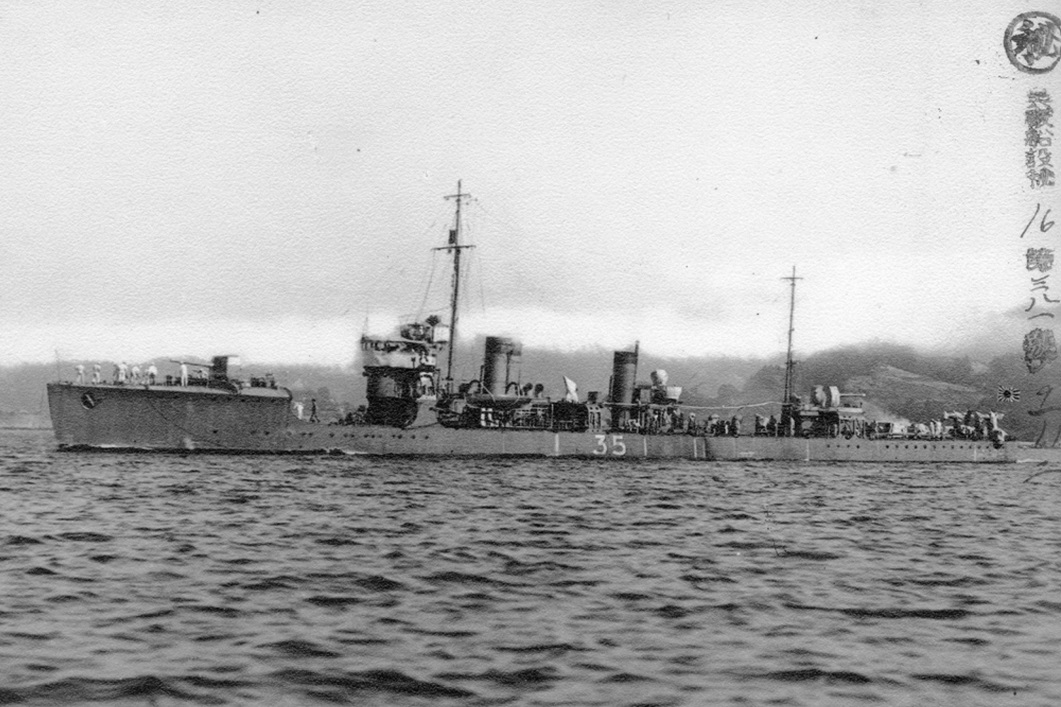 No.35 patorol boat of Imperial Japanese Navy, ex-DD Tsuta.